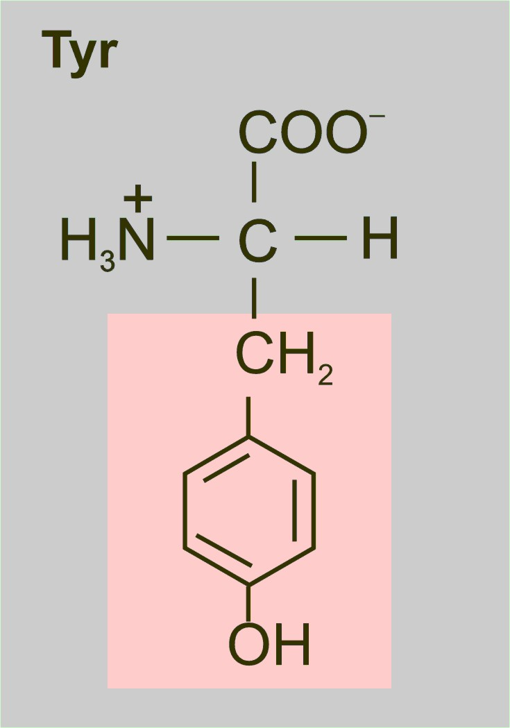 tirosine amino acid formula jpg